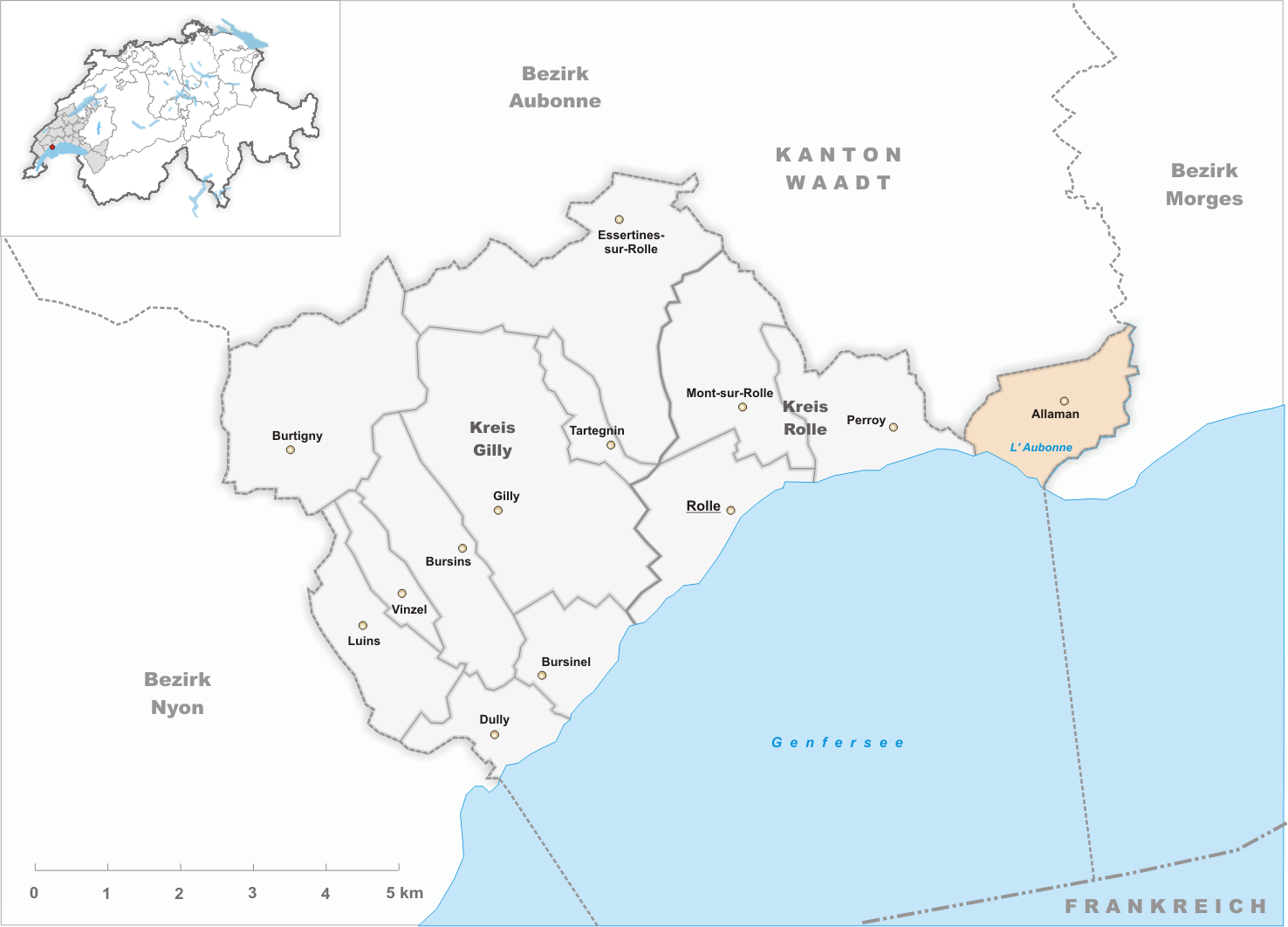 Municipality Allaman